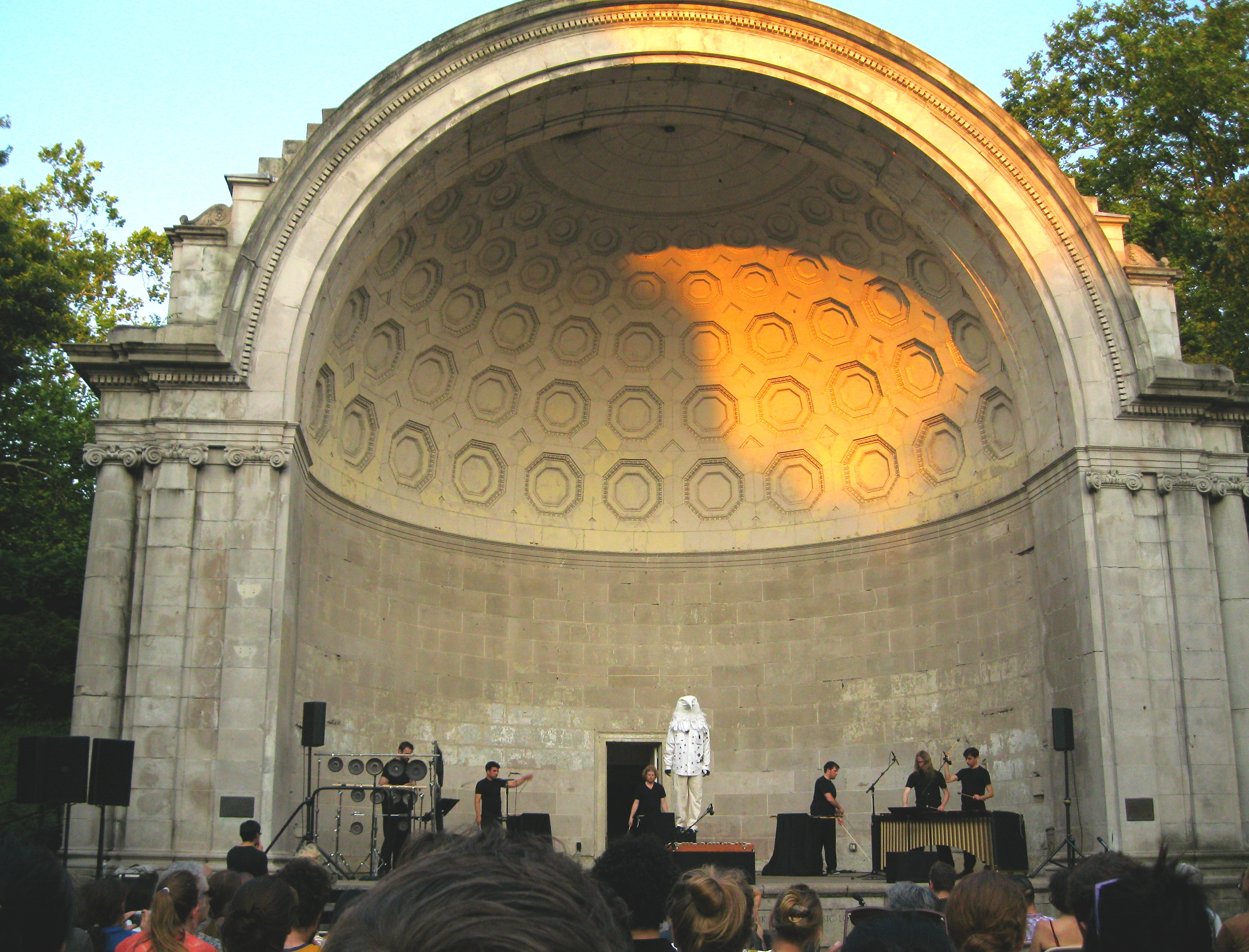 A performance by Iktus Percussion (Chris Graham, Josh Perry, Steve Sehman, Chris Howard, Piero Guimaraes, and Dennis Sullivan) with Derek Kwan (electronics) of Karlheinz Stockhausen's Musik im Bauch at the Naumberg Bandshell in Central Park, New York City, on Thursday, June 21, 2012. (Co-presented by Goethe-Institut and New York Virtuoso Singers as part of Make Music New York.) Section II: "Frozen in poses during the whipping of switches": "The whistling, whipping, and hissing of the switches cleans the air of evil spirits".